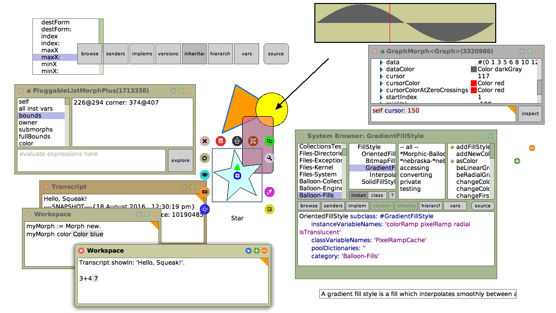 This screenshot shows several graphical objects in the Morphic user interface in Squeak/Smalltalk. Each graphical object is called a Morph. On the StarMorph in the middle of the screenshot the meta menu called Halo is visible.